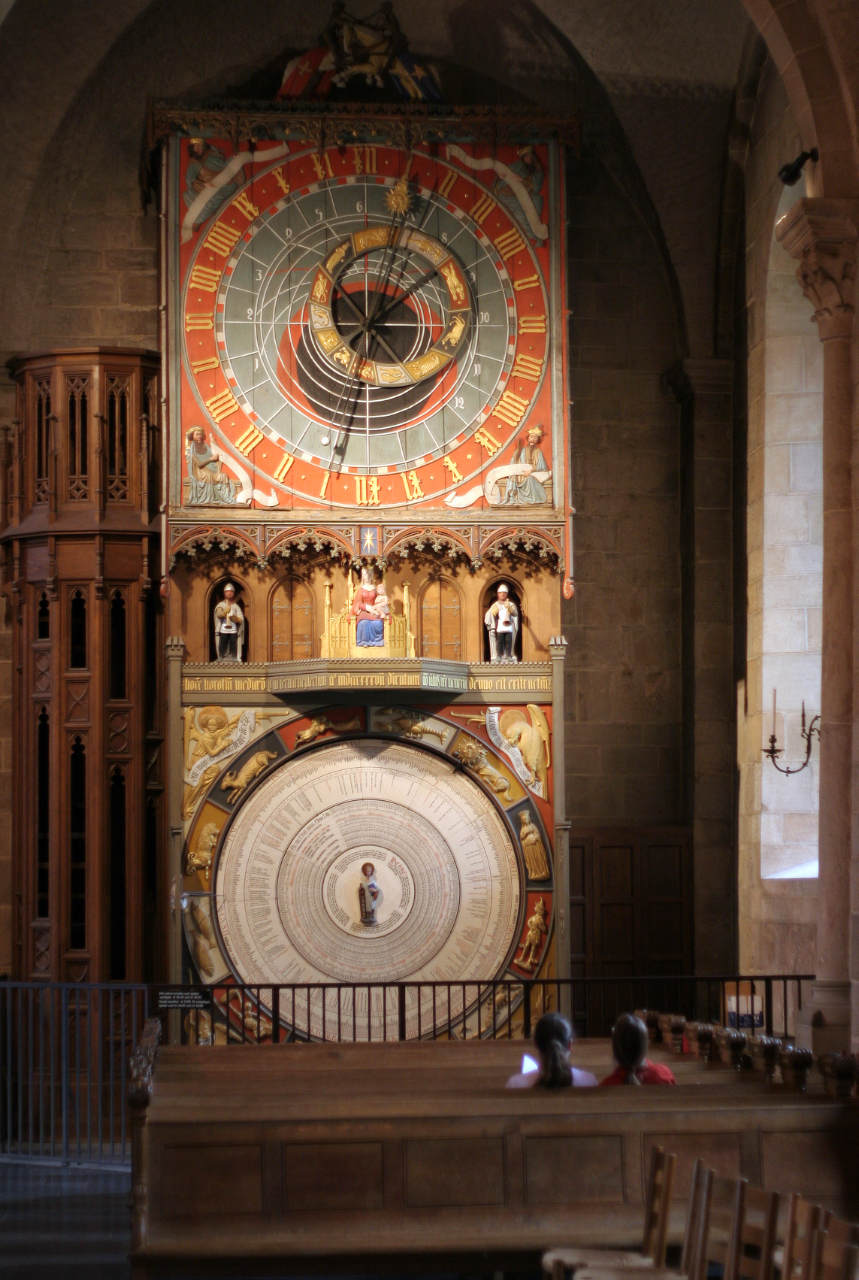 15:th century astronomical clock in Lund Cathedral.